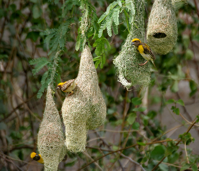 Baya Weaver Ploceus philippinus- Tokora, Tokora chorai (Assamese); Baya, Son-Chiri (Hindi);Baya Chadei (Oriya); Sugaran (Marathi); Tempua (Malay); Sughari (Gujarati); Babui (Bengali); Parsupu pita, Gijigadu/Gijjigadu (Telugu); Gijuga (Kannada); Thukanam kuruvi (Malayalam);Thukanan-kuruvi (Tamil); Wadu-kurulla, Tatteh-kurulla, Goiyan-kurulla (Sinhala); sa-gaung-gwet, mo-sa (Myanmar); Bijra (Hoshiarpur); Suyam (Chota Nagpur)- male in Hyderabad, India.